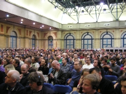 Photo taken by JK the unwise| of a meeting at the third ESF, in the venue of Alexandra Palace, London